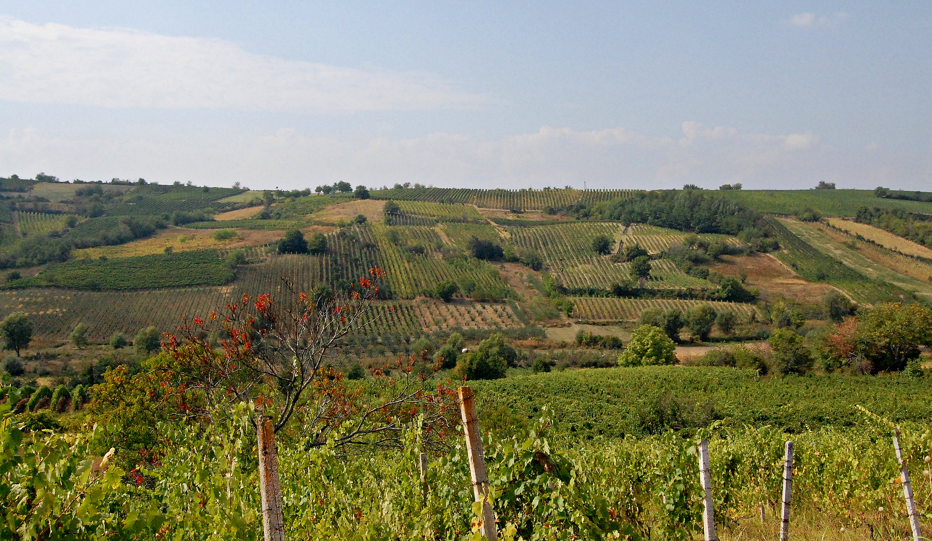 Rahovec